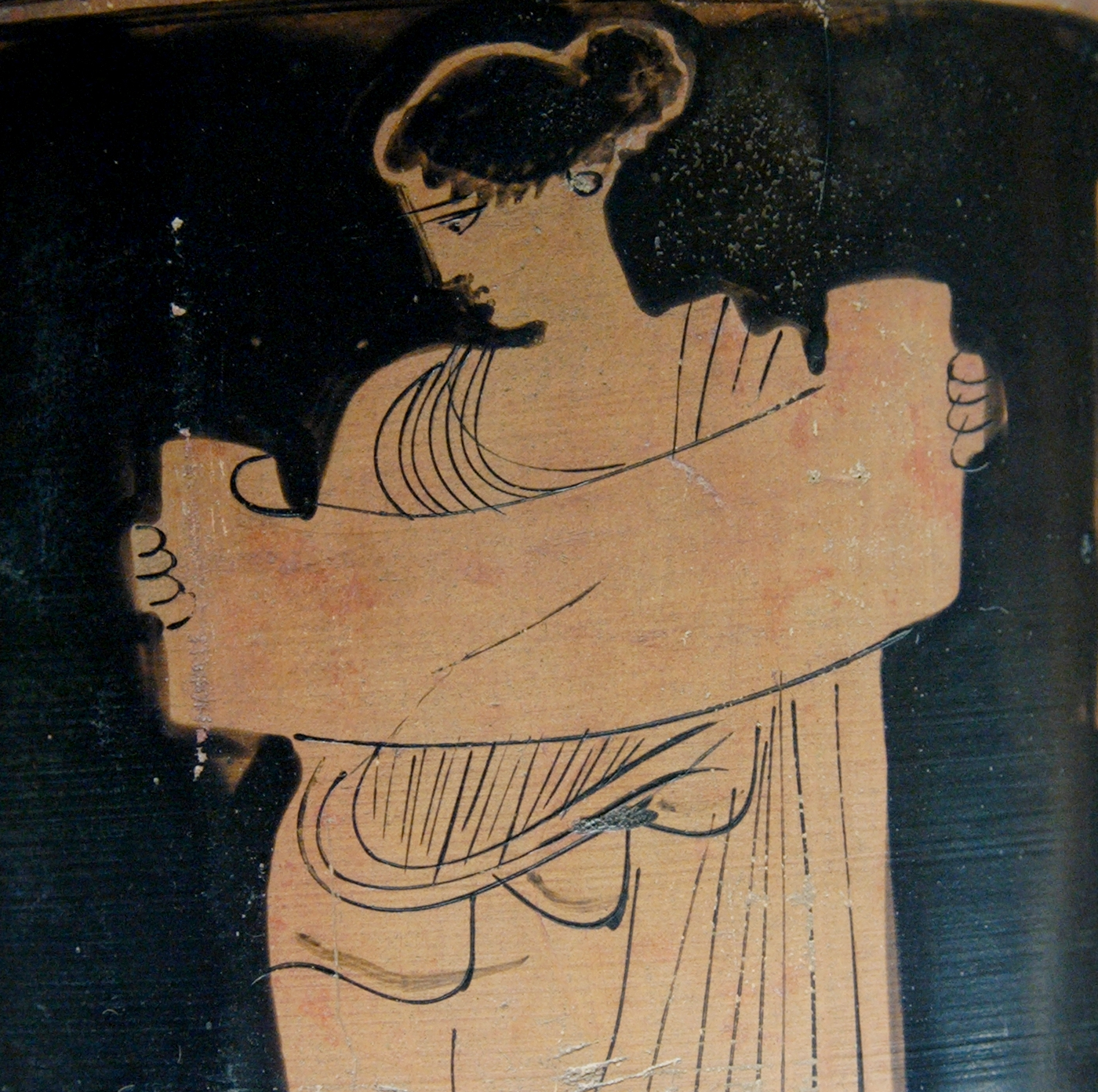 Musa reading a volumen (scroll). Attic red-figure lekythos, ca. 435-425 BC. From Boeotia. The artist is identified as the Klügmann Painter.